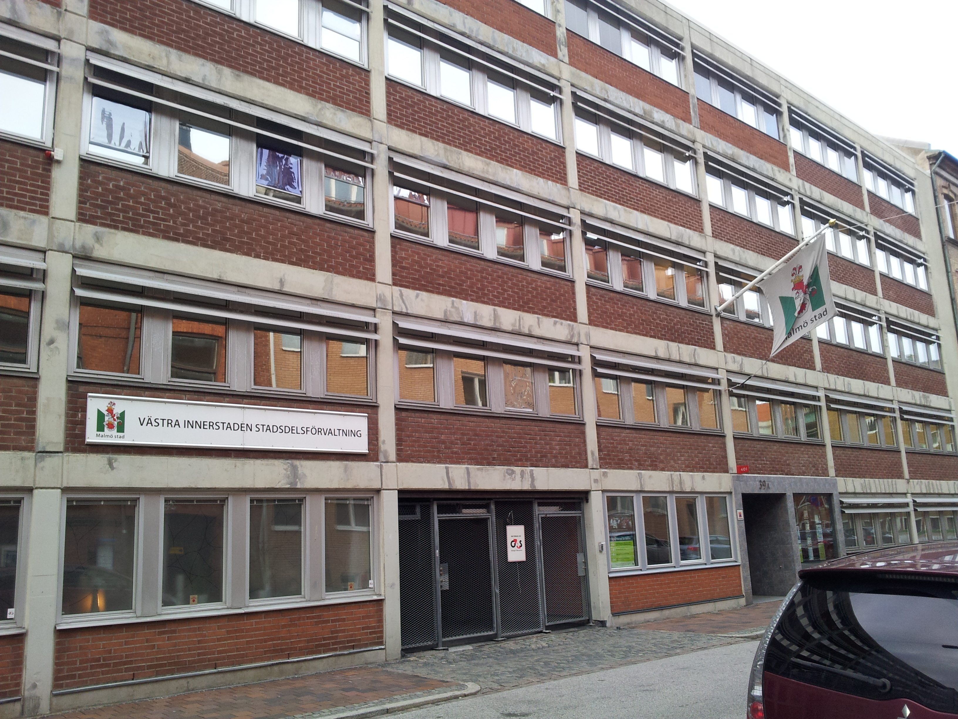 The district of Västra Innerstaden's administrational building in Malmö